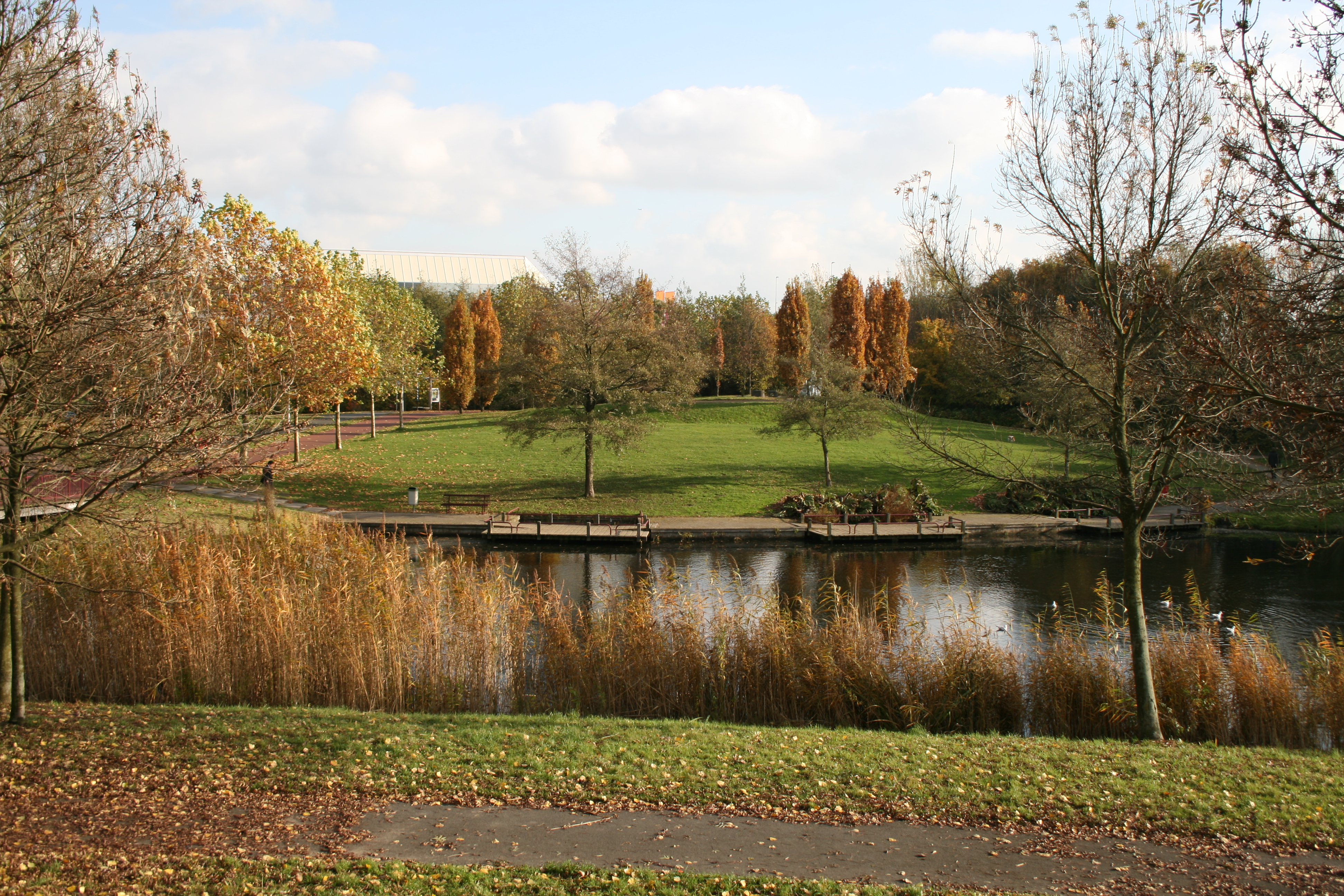 The Beatrixpark is a park in South Amsterdam.